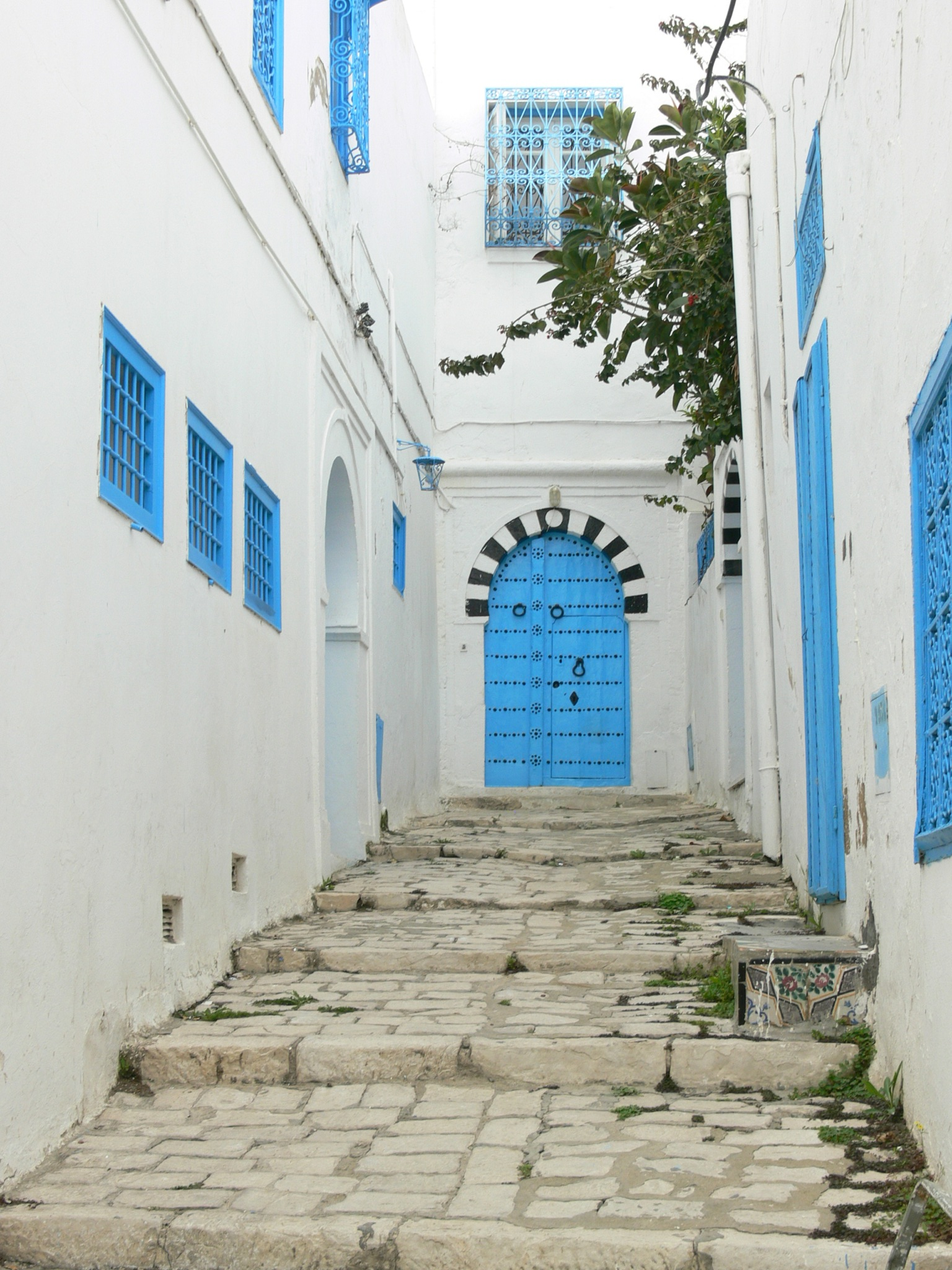 Sidi Bou Said is a unique town in Tunisia, famous for its stark white houses with blue ornaments.